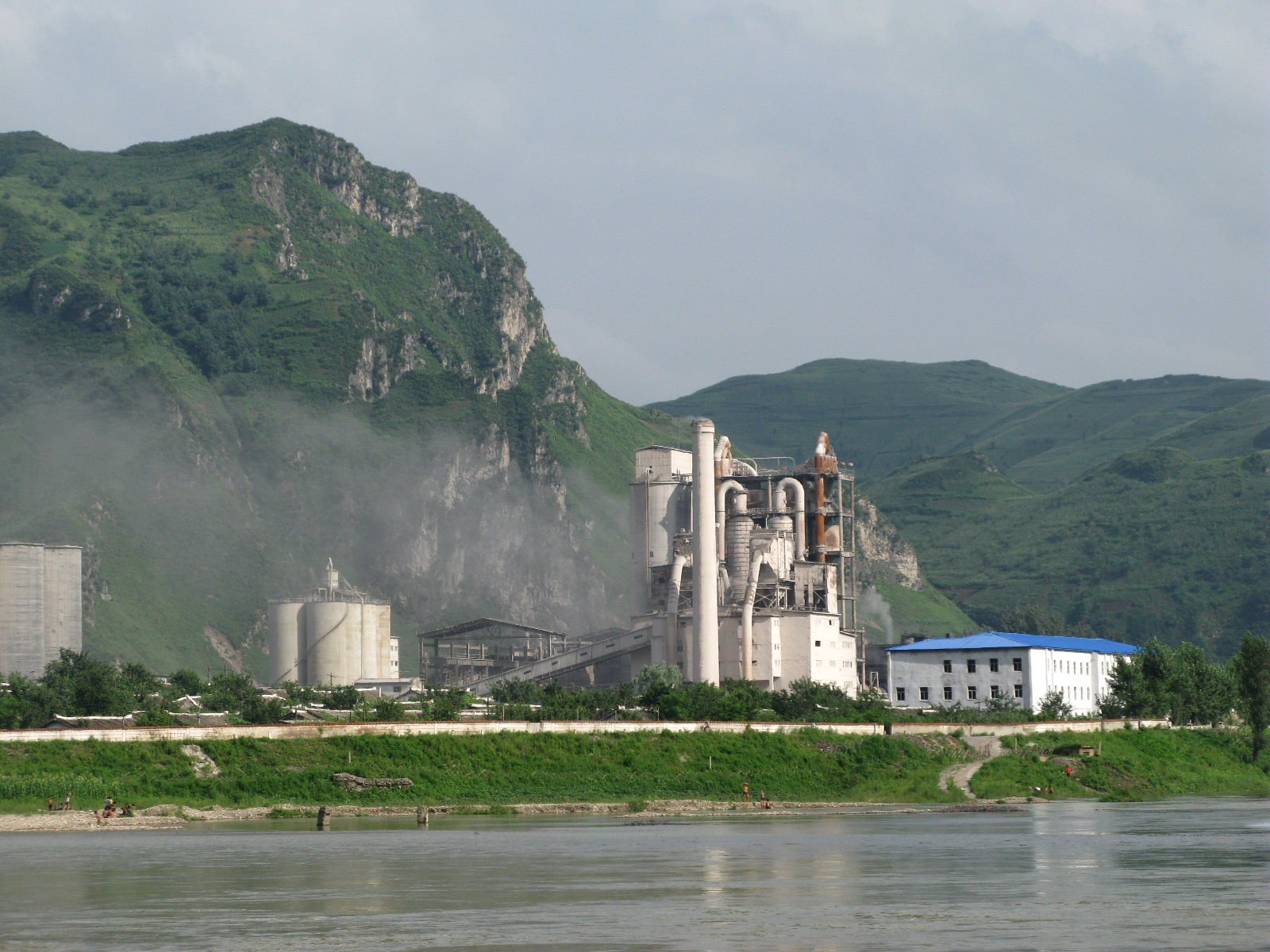 Built by the USSR. From across the Yalu River, Ji'an.